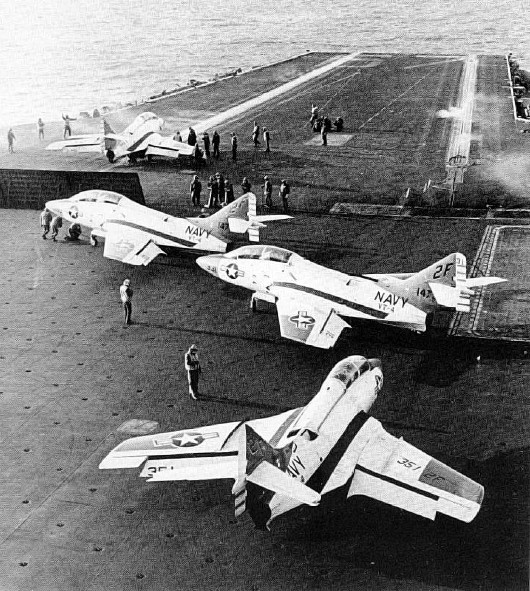 The last operational U.S. Navy Grumman TF-9J Cougar trainers of training squadron VT-4 making their final launches from the aircraft carrier USS John F. Kennedy (CVA-67) in February 1974.